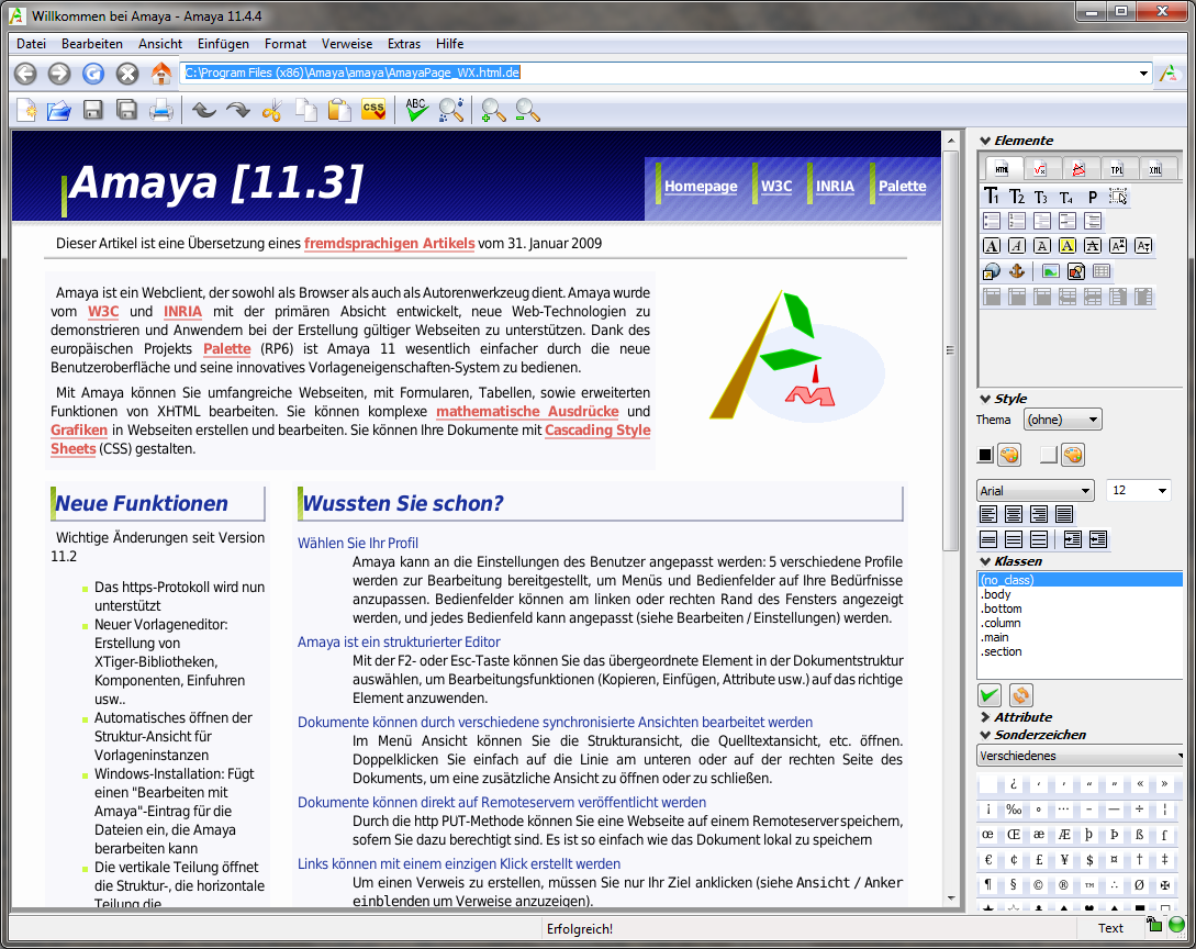 Screenshot Amaya 11.3.1